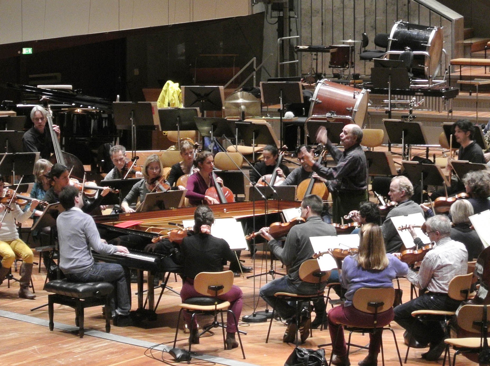 Francesco Piemontesi and Roger Norrington rehearsing with Deutsches Symphonie Orchester at Philharmonie in Berlin.